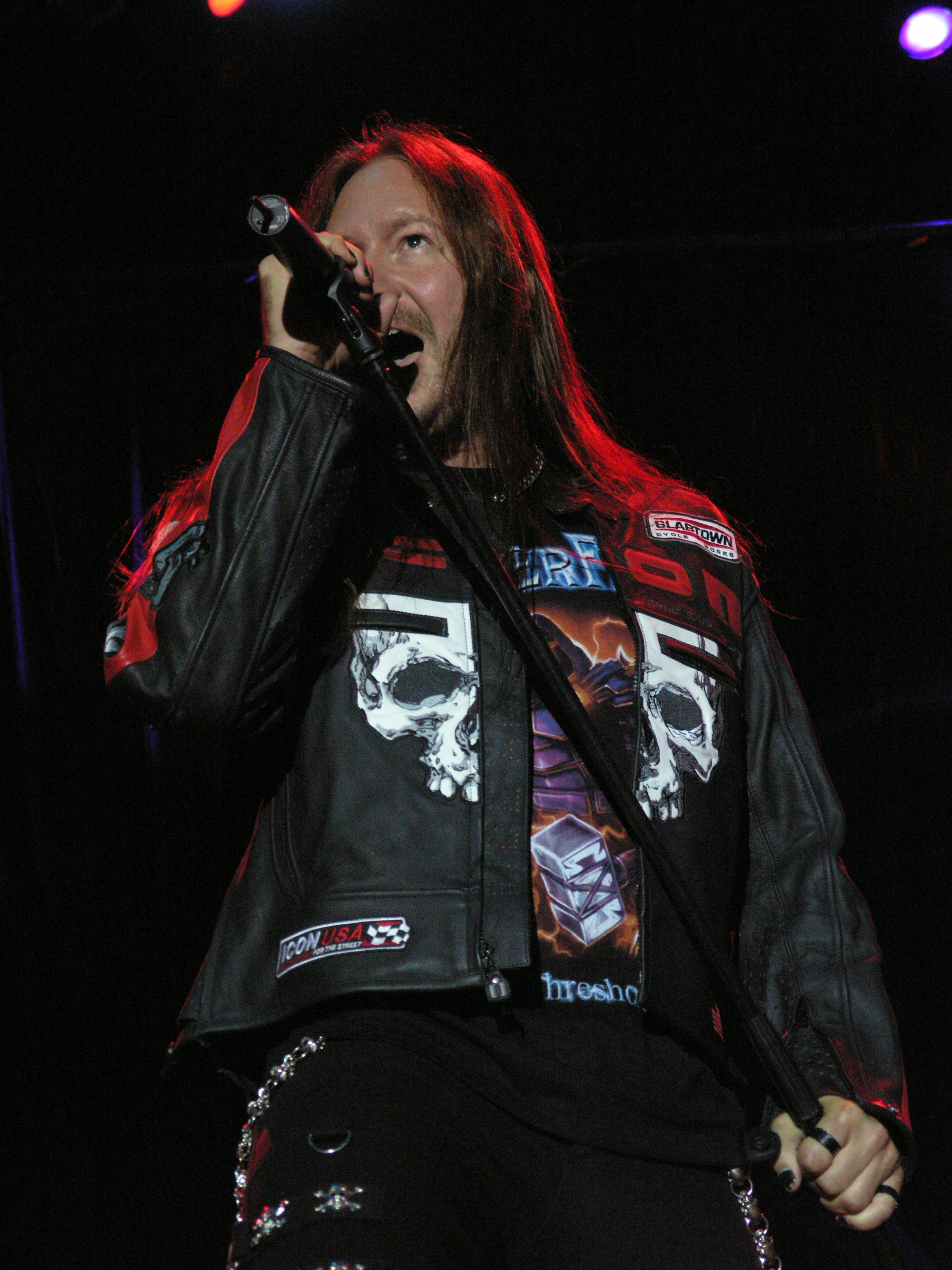 Joacim Cans from Hammerfall during Masters of Rock 2007 festival